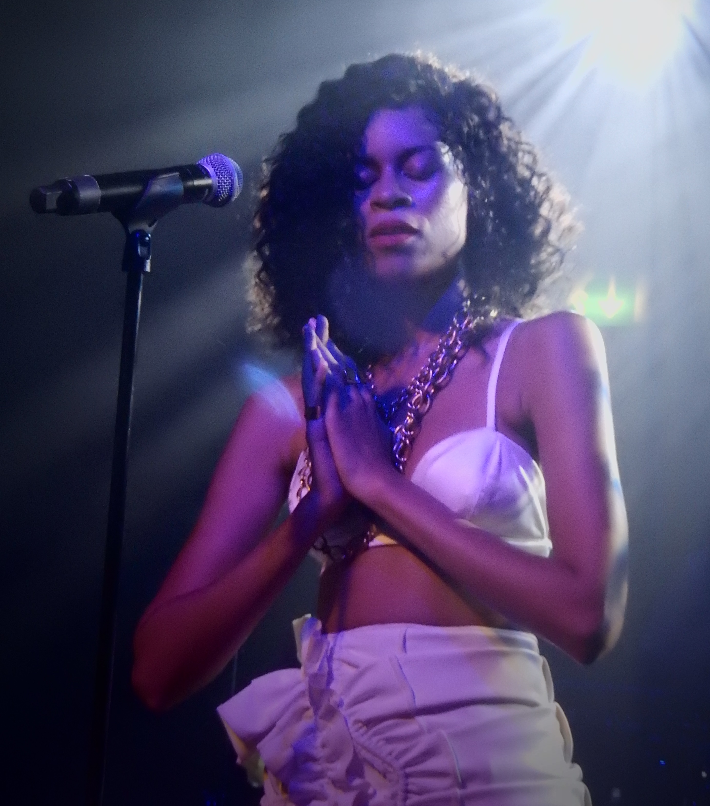 Aluna Francis of AlunaGeorge performing in the Scala nightclub in London